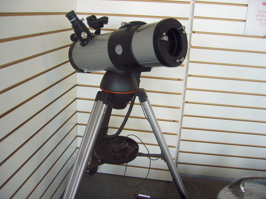 Original summary at Wikipedia: "Image taken at the window of a store, Celestron telescope of unknown category. One of my family members took it, but it is not copyrighted and they gave me permission to upload. I'm new to this so please bear with me, how could anyone be the copyright holder if it wasn't copyrighted?"